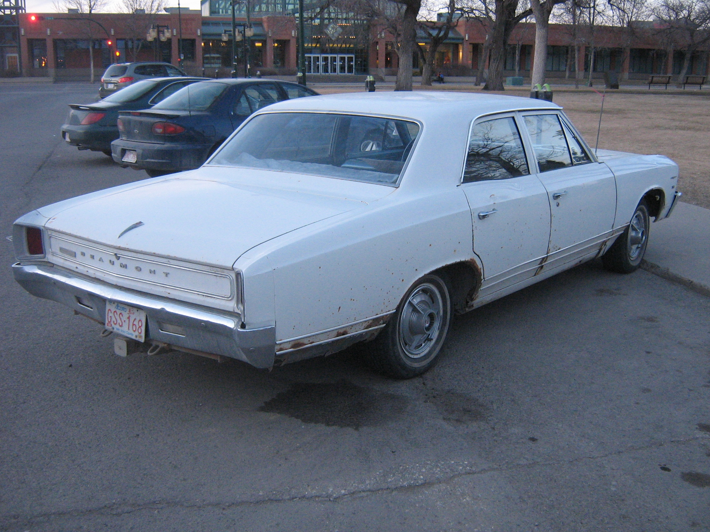 A Canadian only Beamount.